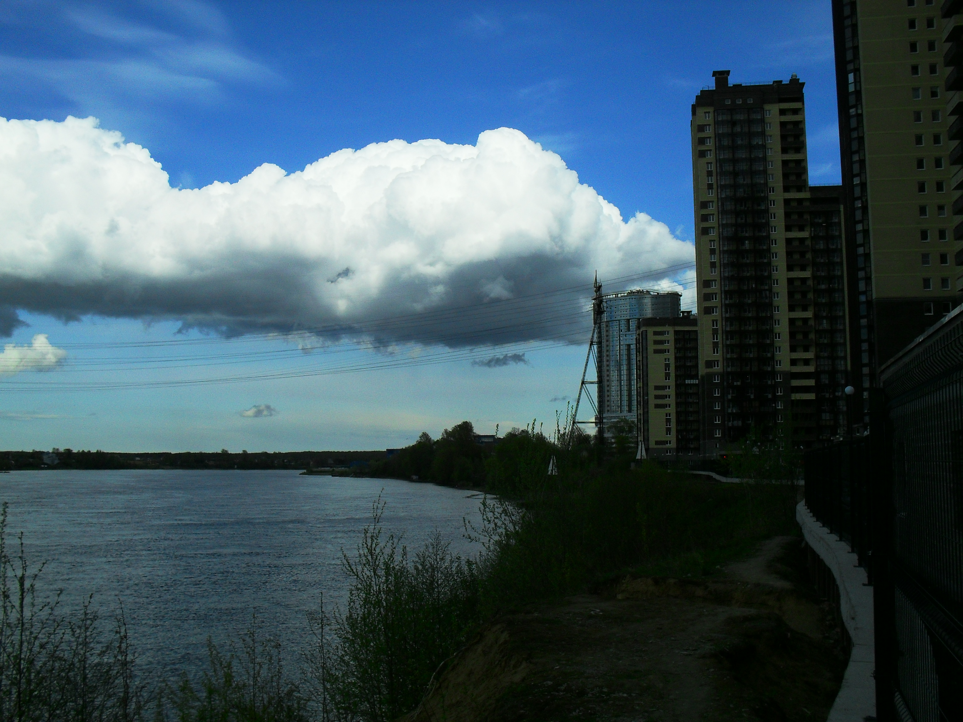 Krivoe Koleno 2020